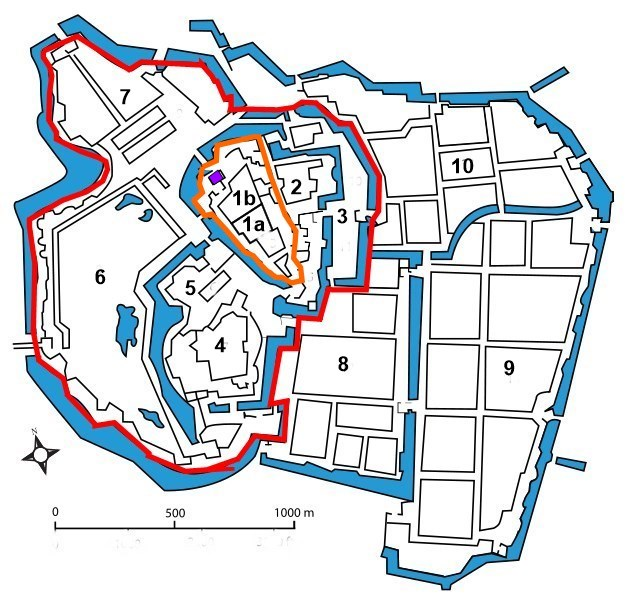 Edo within Uchibori moat